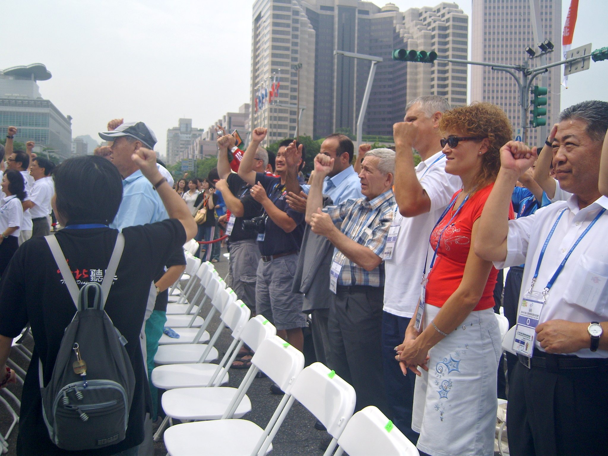 Summer Deaflympics 2009 "Power in me" 1y Countdown Warming Up.